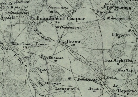 Pelchi village on Shubert map